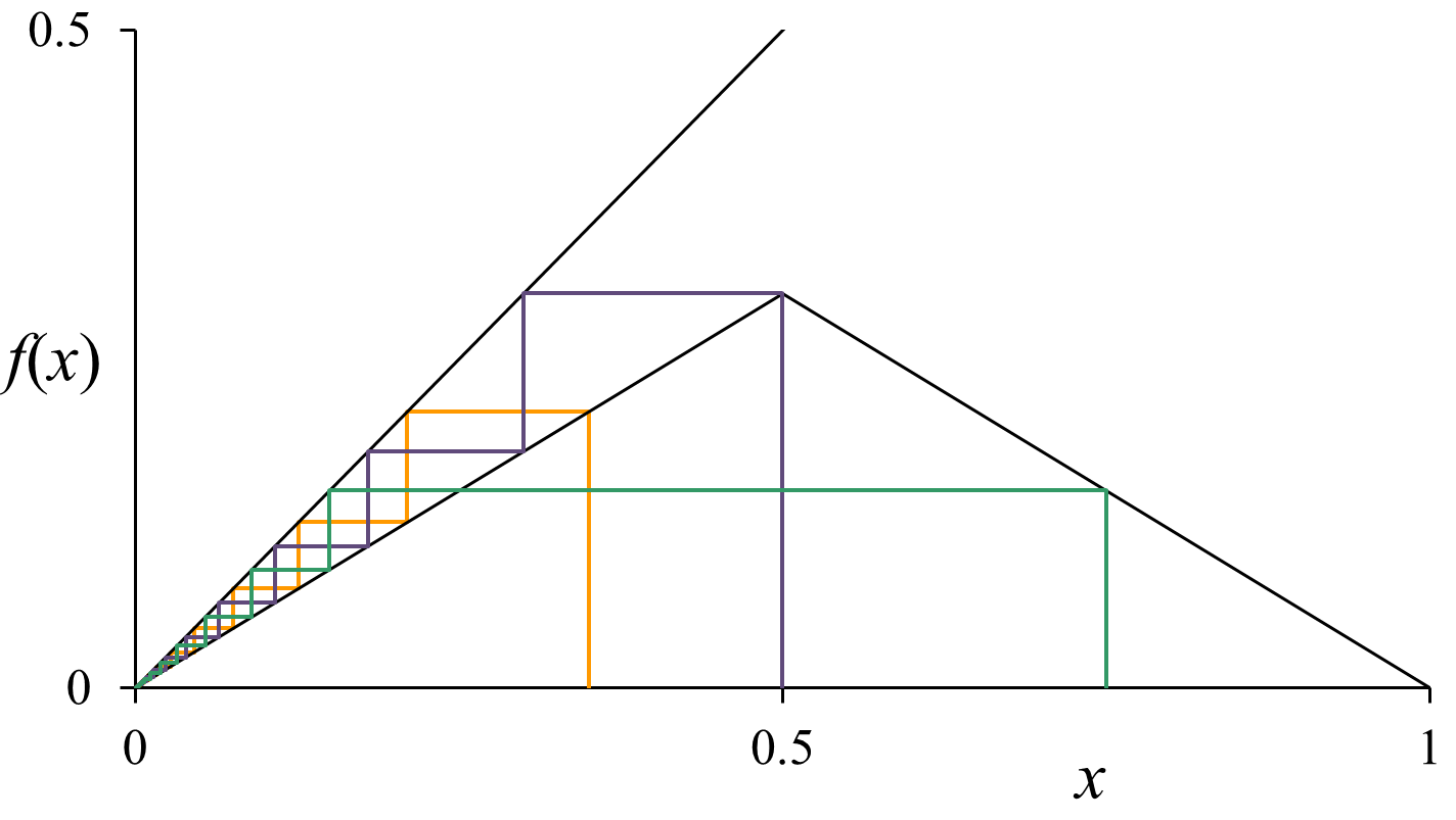 The graph shows the cobweb plots of thee orbits of Tent map with the parameter μ = 0.6. The yellow orbit on the left side of the graph starts from x0 = 0.35. The purple middle orbit starts from x0 = 0.5, and the green right orbit start from x0 = 0.75.